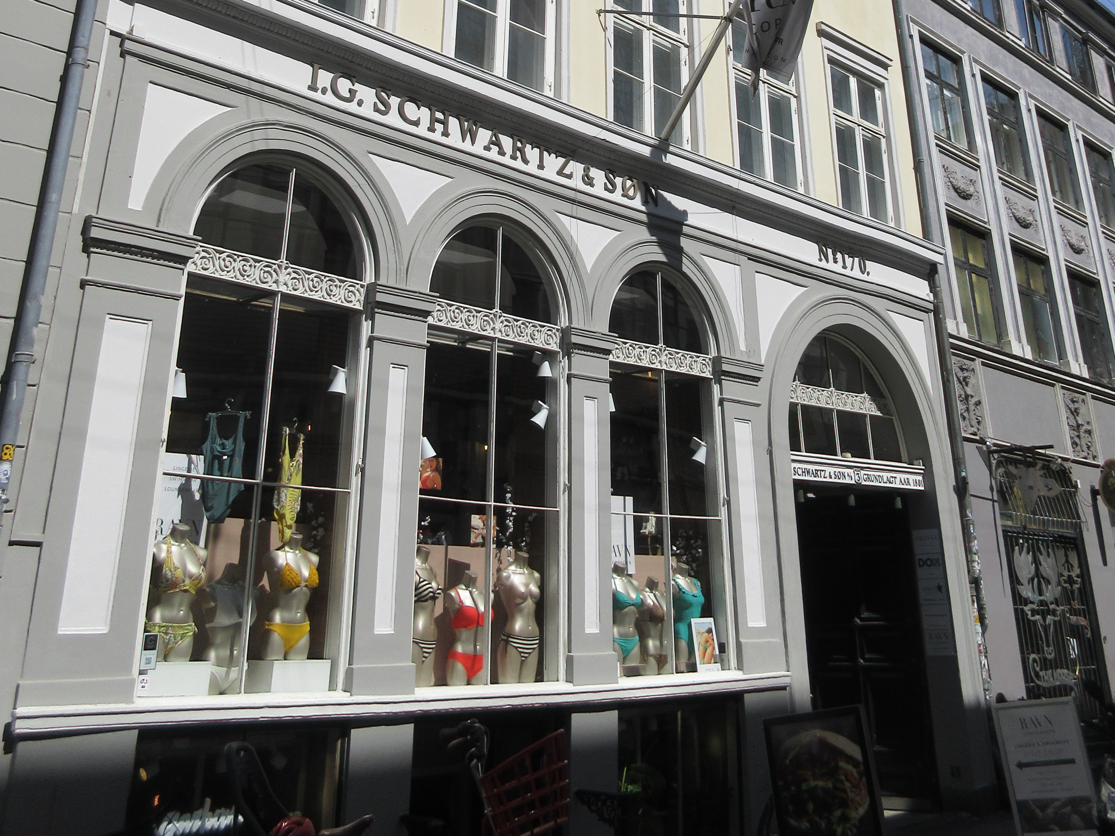 Sværtegade 3 in Copenhagen, Denmark